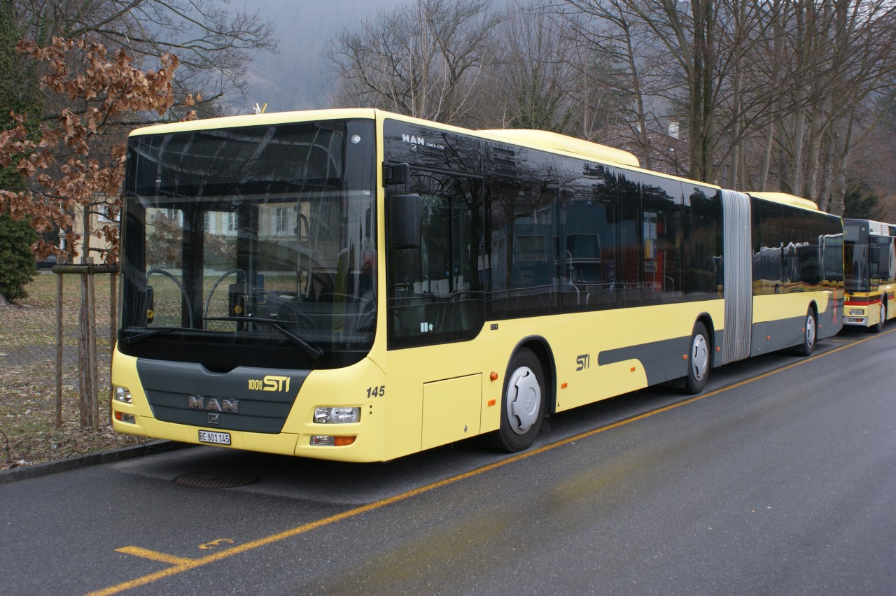 STI bus 145 at Thun railway station